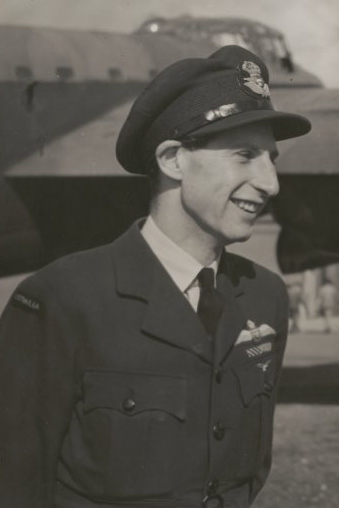 Flight Lieutenant Peter Isaacson standing in front of Avro Lancaster A66-1, callsign Q for Queenie, 1943. Other information Caption on reverse of original photograph: "F/​Lt. Peter Isaacson, D.F.C., A.F.C., D.F.M., captain of the first giant Lancaster bomber to visit Australia, who has also been prominent in R.A.A.F. Lancaster raids on Berlin and other German cities"